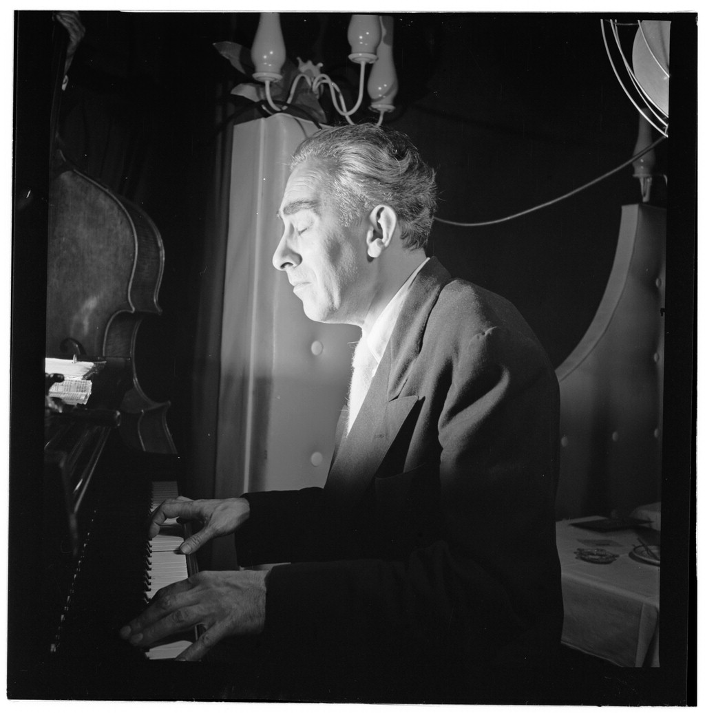 Gottlieb, William P., 1917-, photographer. [Portrait of Art Hodes, Ole South, New York, N.Y., ca. Oct. 1946] 1 negative : b&w ; 2 1/4 x 2 1/4 in. Caption from Down Beat: Piano: Art Hodes: Cover the left third of this picture, then lay the picture on its side. Brother Hodes really looks "stretched out." But it's just that lost look Art gets when he plays. Only thing dead about the set-up is business at the Ole South where Art leads his orchestra. Hodes and the management courageously brought a "mixed" unit into the brand new Broadway spot. But they timed their opening with the music business's own private depression. Notes: Gottlieb Collection Assignment No. 408 Reference print available in Music Division, Library of Congress. Purchase William P. Gottlieb Forms part of: William P. Gottlieb Collection (Library of Congress). In: The Record Changer, v. 5, no. 10 (Dec. 46, 1946), p. 11. Subjects: Hodes, Art, 1904- Jazz musicians--1940-1950. Pianists--1940-1950. Ole South Format: Portrait photographs--1940-1950. Film negatives--1940-1950. Rights Info: Mr. Gottlieb has dedicated these works to the public domain, but rights of privacy and publicity may apply. Repository: (negative) Library of Congress, Prints & Photographs Division, Washington D.C. 20540 USA, (reference print) Library of Congress, Music Division, Washington D.C. 20540 USA, Part Of: William P. Gottlieb Collection (DLC) 99-401005 General information about the Gottlieb Collection is available at Persistent URL: Call Number: LC-GLB23- 0417 This work is from the William P. Gottlieb collection at the Library of Congress. Rights and restrictions.In accordance with the wishes of William Gottlieb, the photographs in this collection entered into the public domain on February 16, 2010.